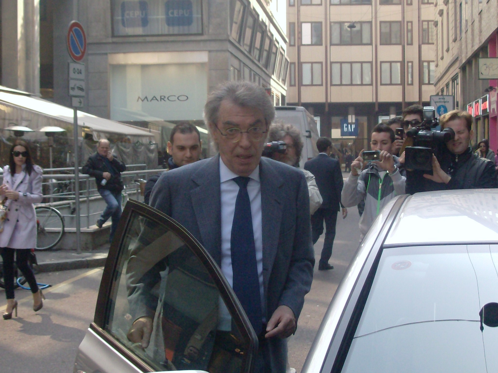 Massimo Moratti president of FC Internazionale Milano in 2012